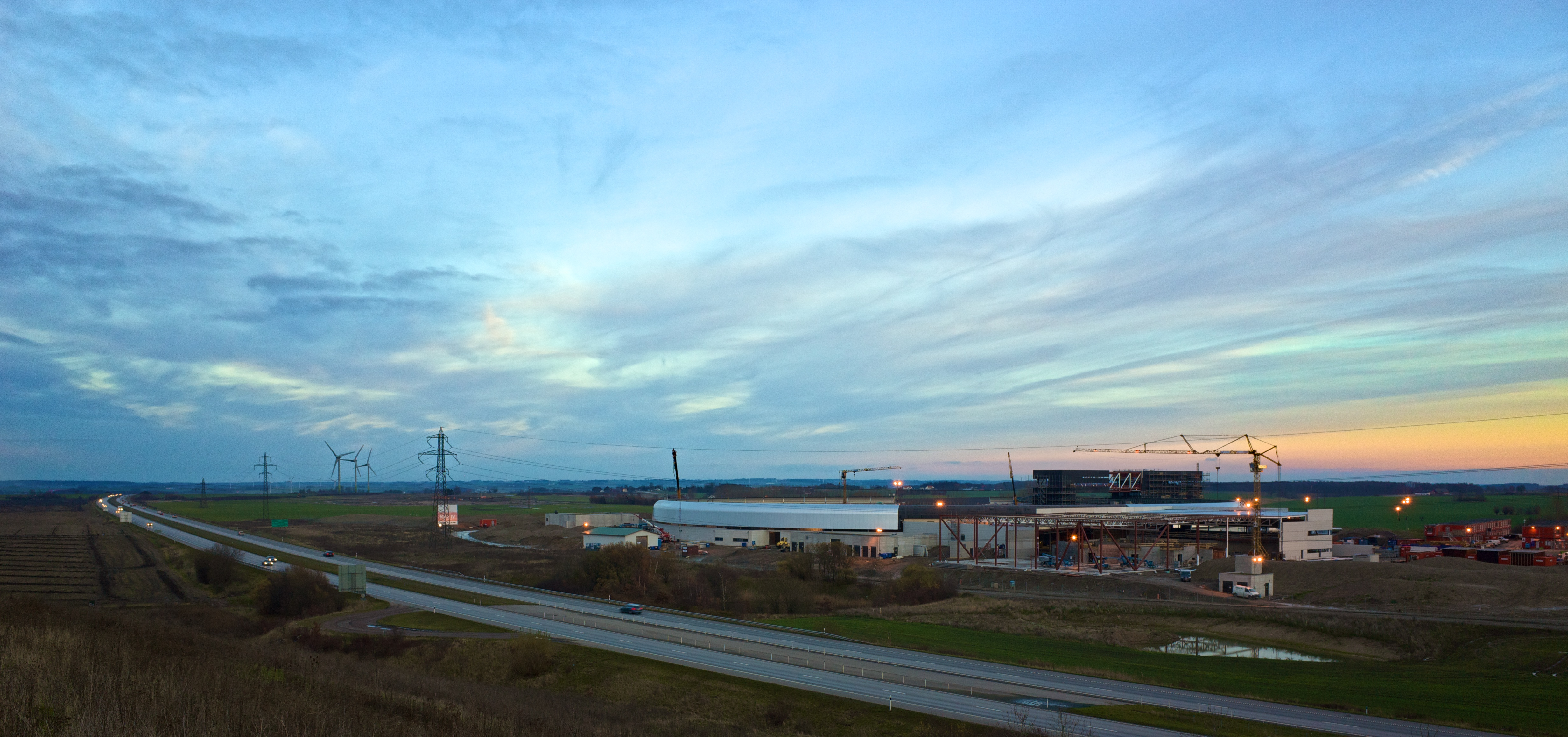 MAX IV in Lund nearing completion.